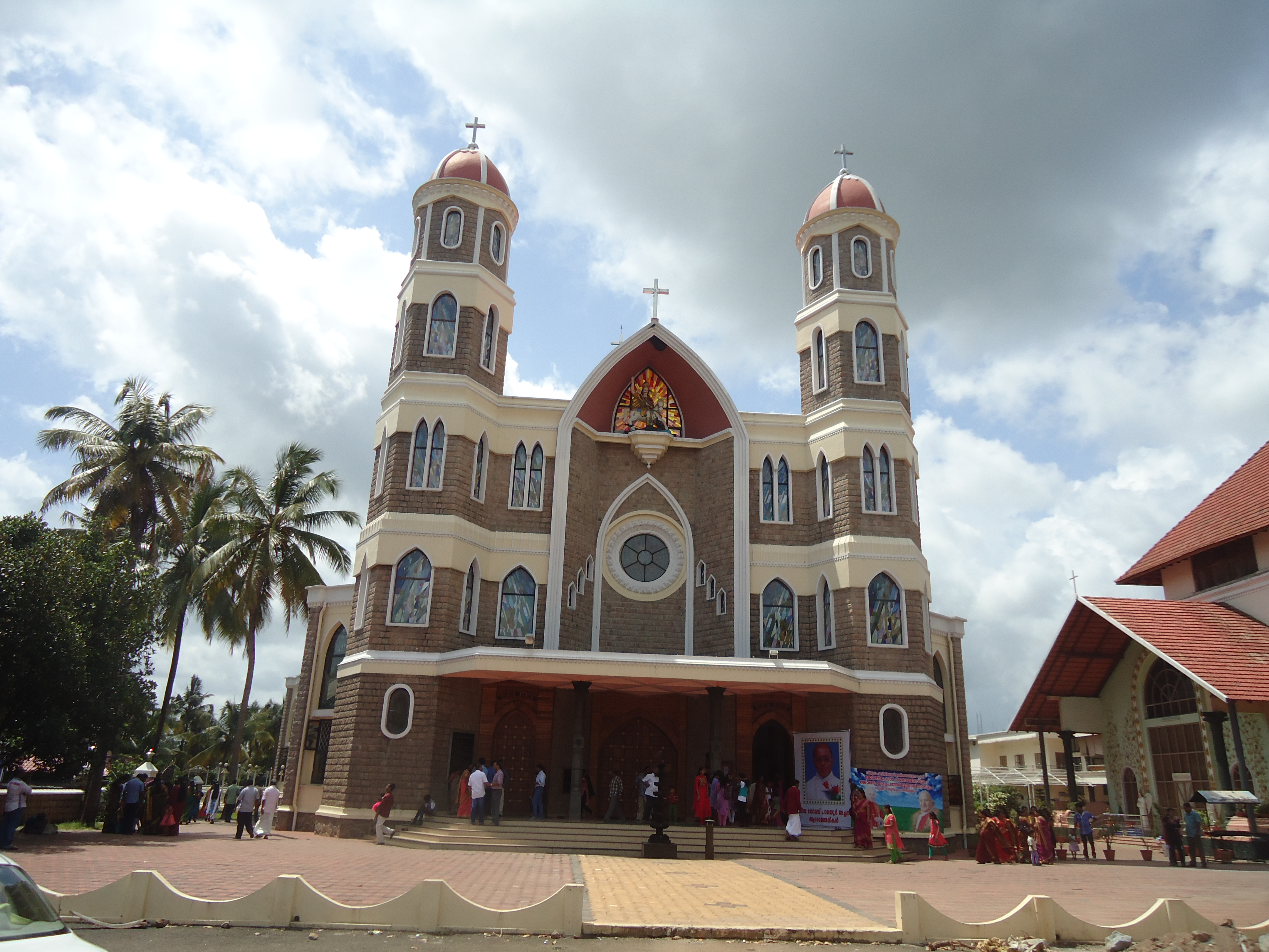 St george Basilica Angamaly